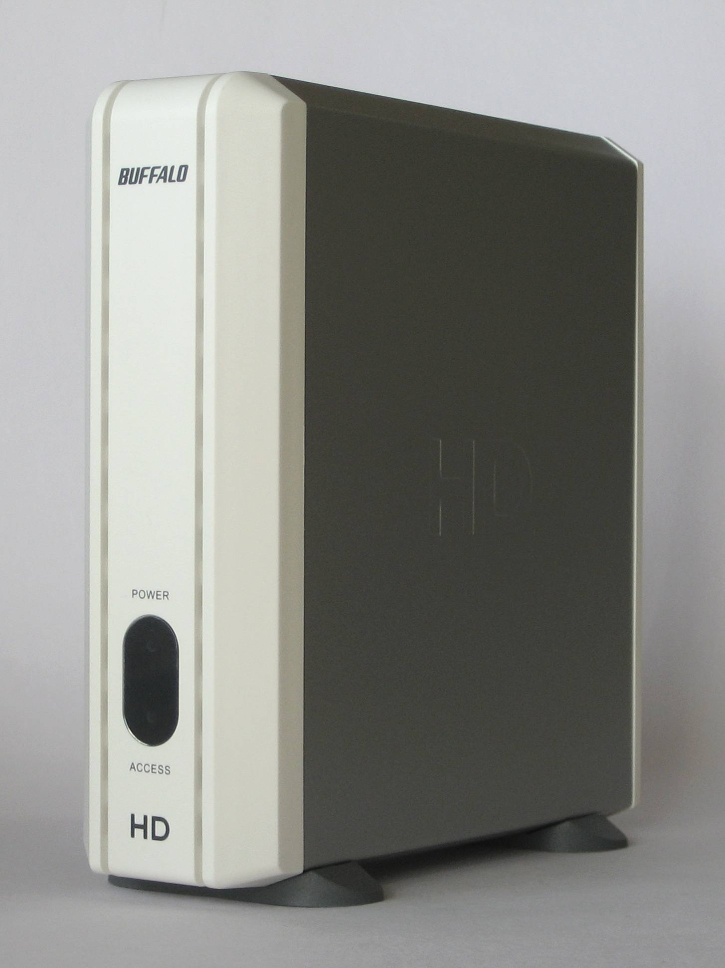 Buffalo HD-H250U2 is a 250GB external hard disk drive.